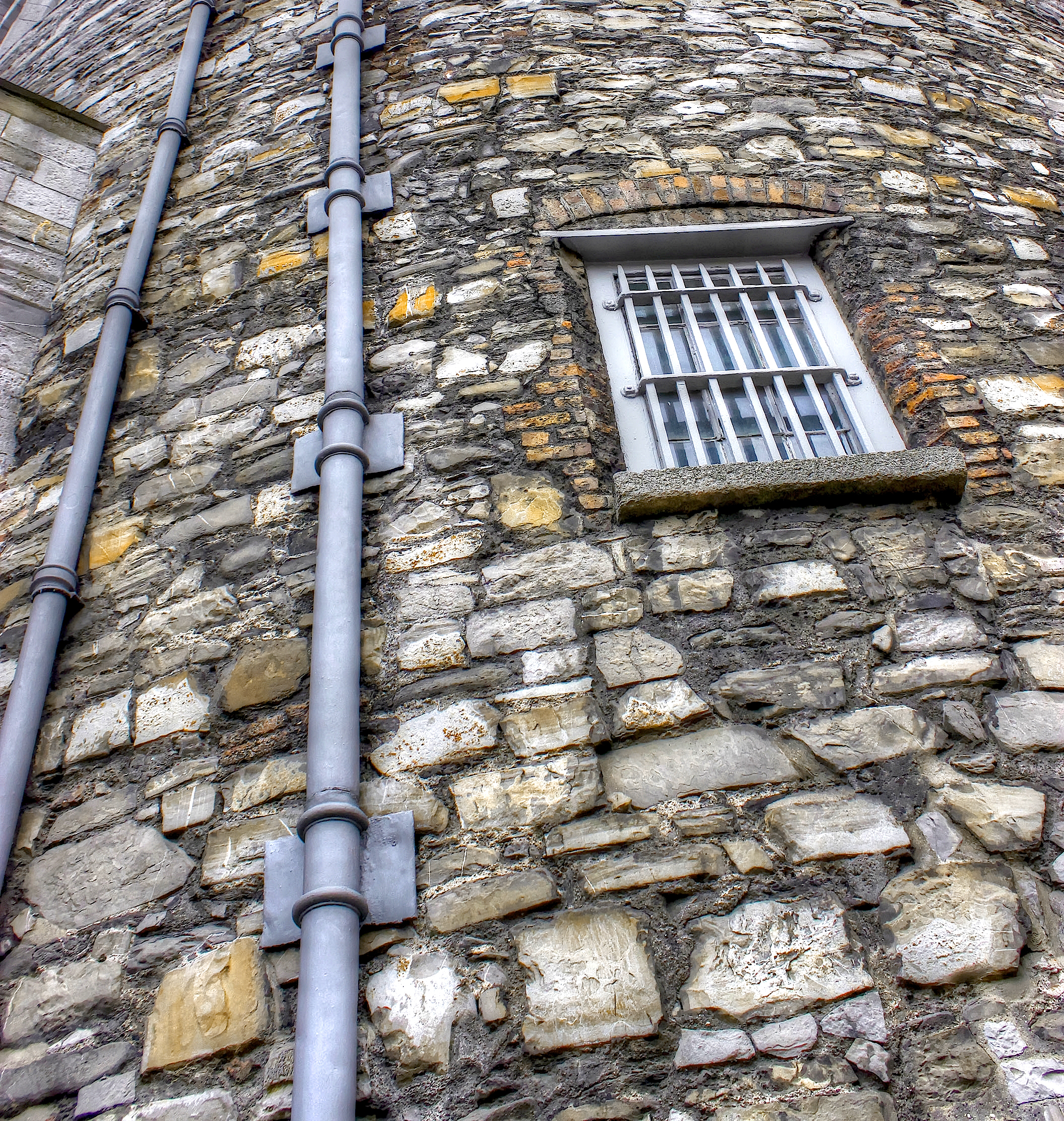 Dublin Castle (Dublin, Ireland)